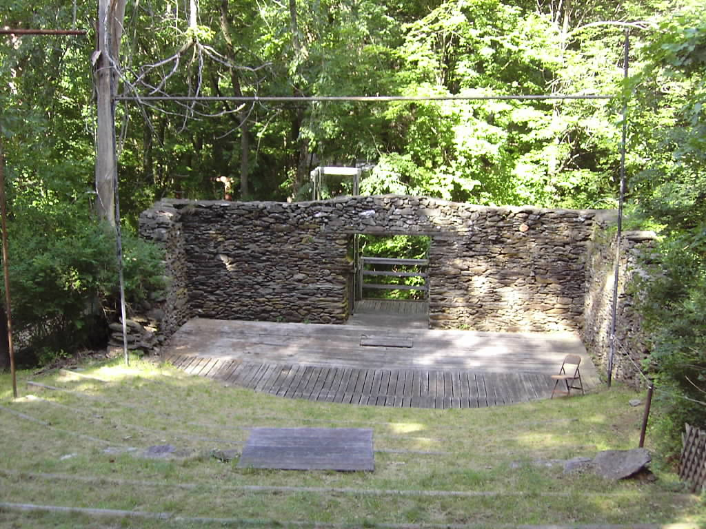 A photo of the old theater at Camp Rising Sun, Red Hook, New York